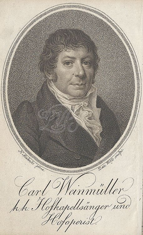 Portrait of Carl Weinmüller (1764-1828)